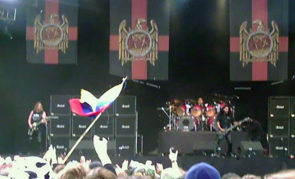 Slayer (band), Download Festival, England, 2005